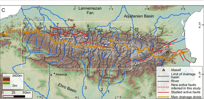 Shaded relief map of the Pyrenees with the active faults and drainage divides; Non encircled numbers show rivers 1: Noguera Pallaresa; 2: Noguera Ribagorçana; 3: Cinca; 4: Aragon; 5: Saison; 6: Gave d'Aspe; 7: Gave d'Ossau; 9: Neste; 10: Garona; 11: Ariège. Encircled numbers show approximate localities 1: Beret Plains and Liat Valley; 2: Aran Valley; 3: Portet de Louchon and Louron valleys.